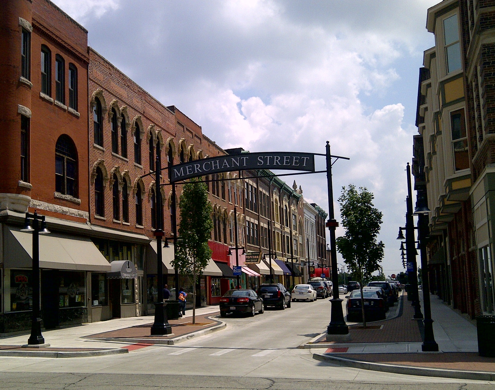 A view of Merchant St. (looking south) in downtown Decatur, Illinois. Photo taken 5 July 2013.